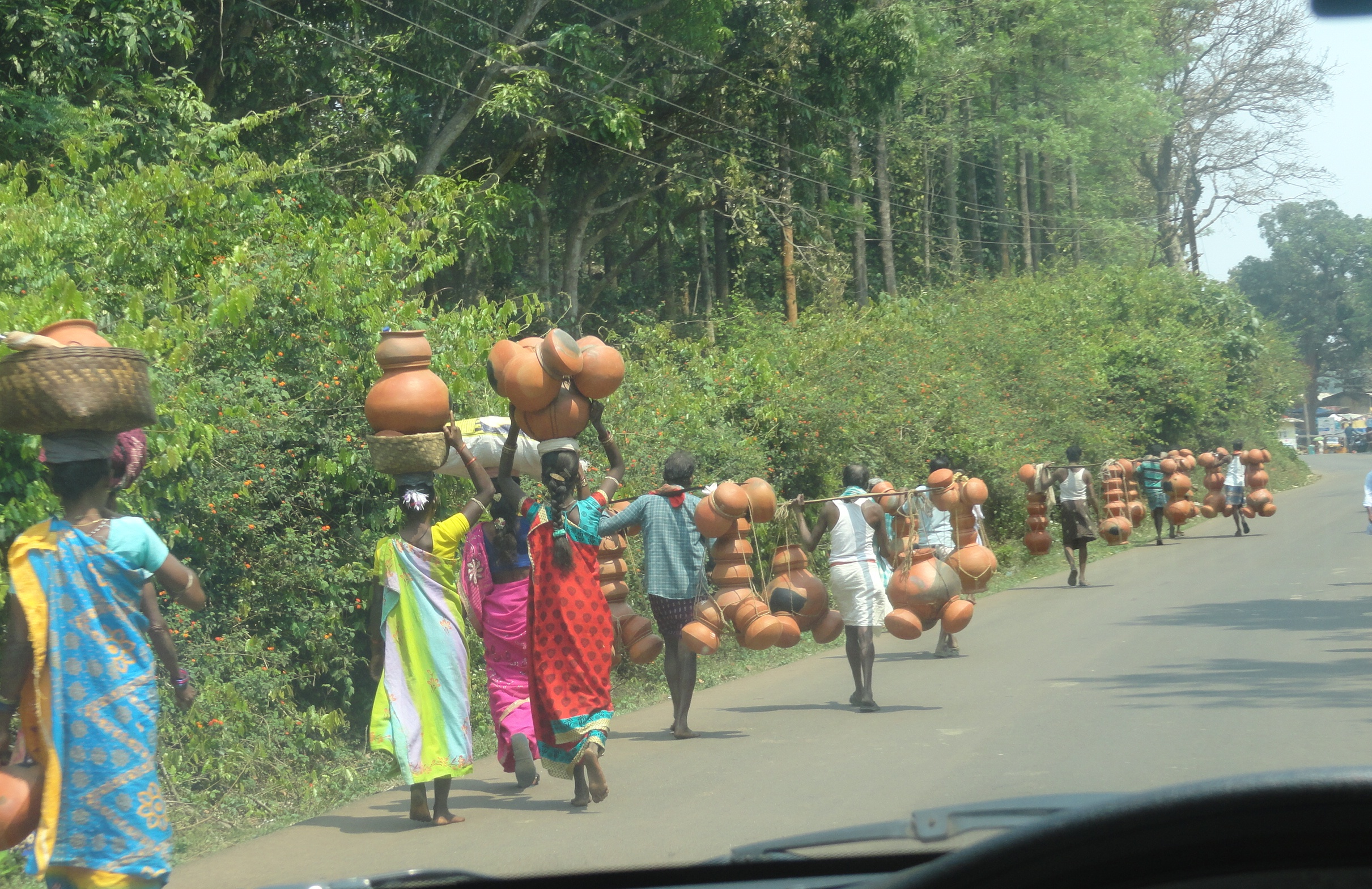 Carrying pots to the market at araku